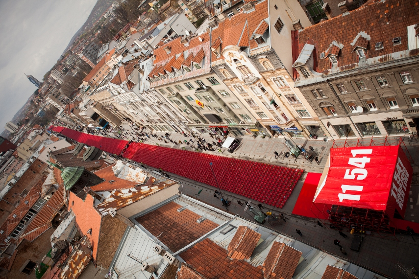 Photo taken during the Sarajevo Red Line - the memorial event organized in cooperation between the City of Sarajevo and East West Theatre Company which commemorated the Siege of Sarajevo's 20th anniversary